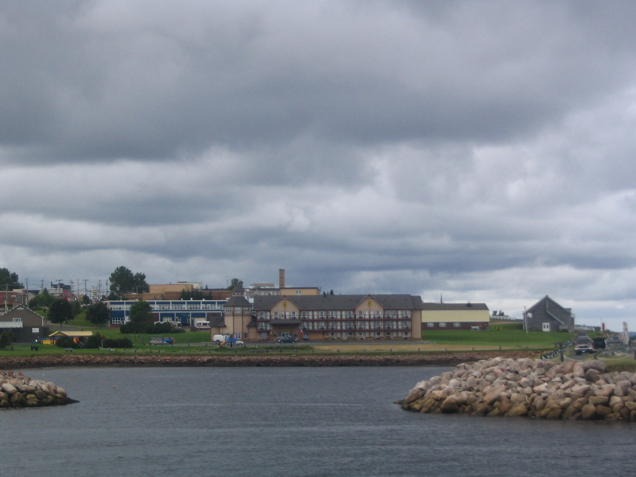 The buildings at the west of the port of Caraquet, New Brunswick, Canada.